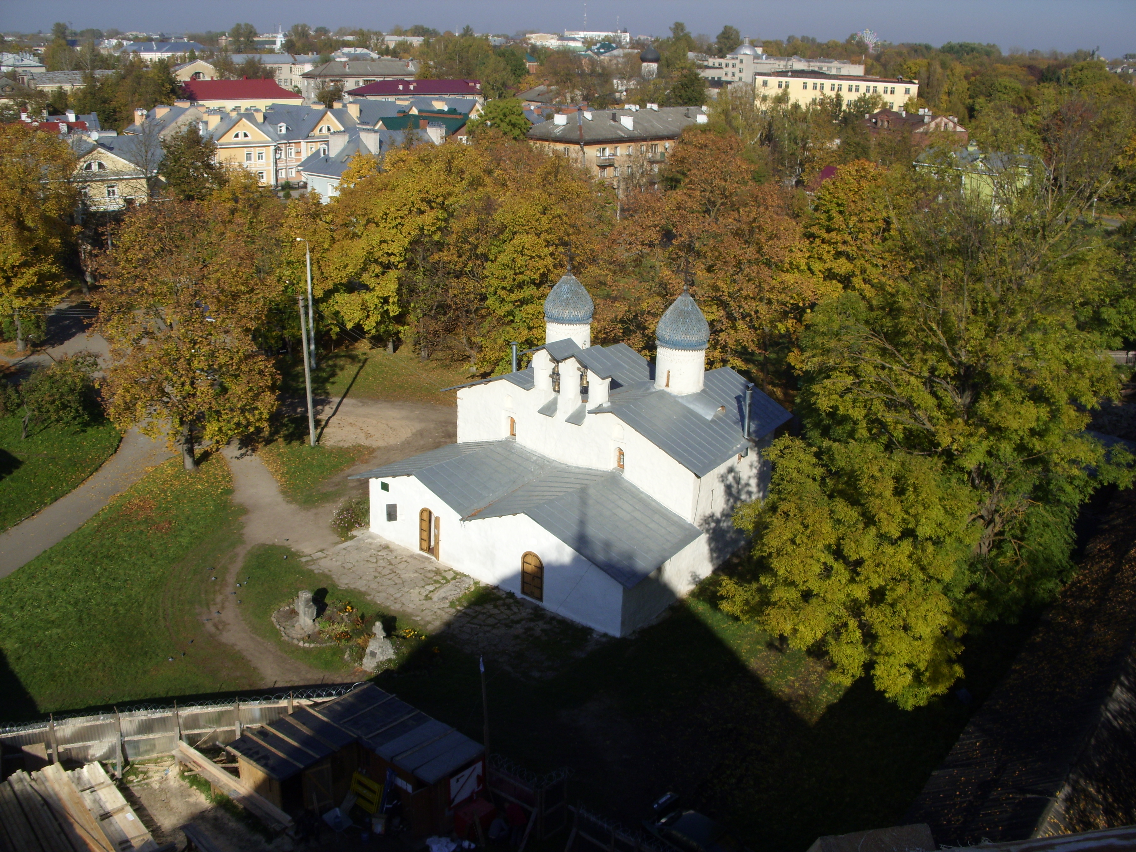 Pskov Pokrova i Rozhdestva ot Proloma